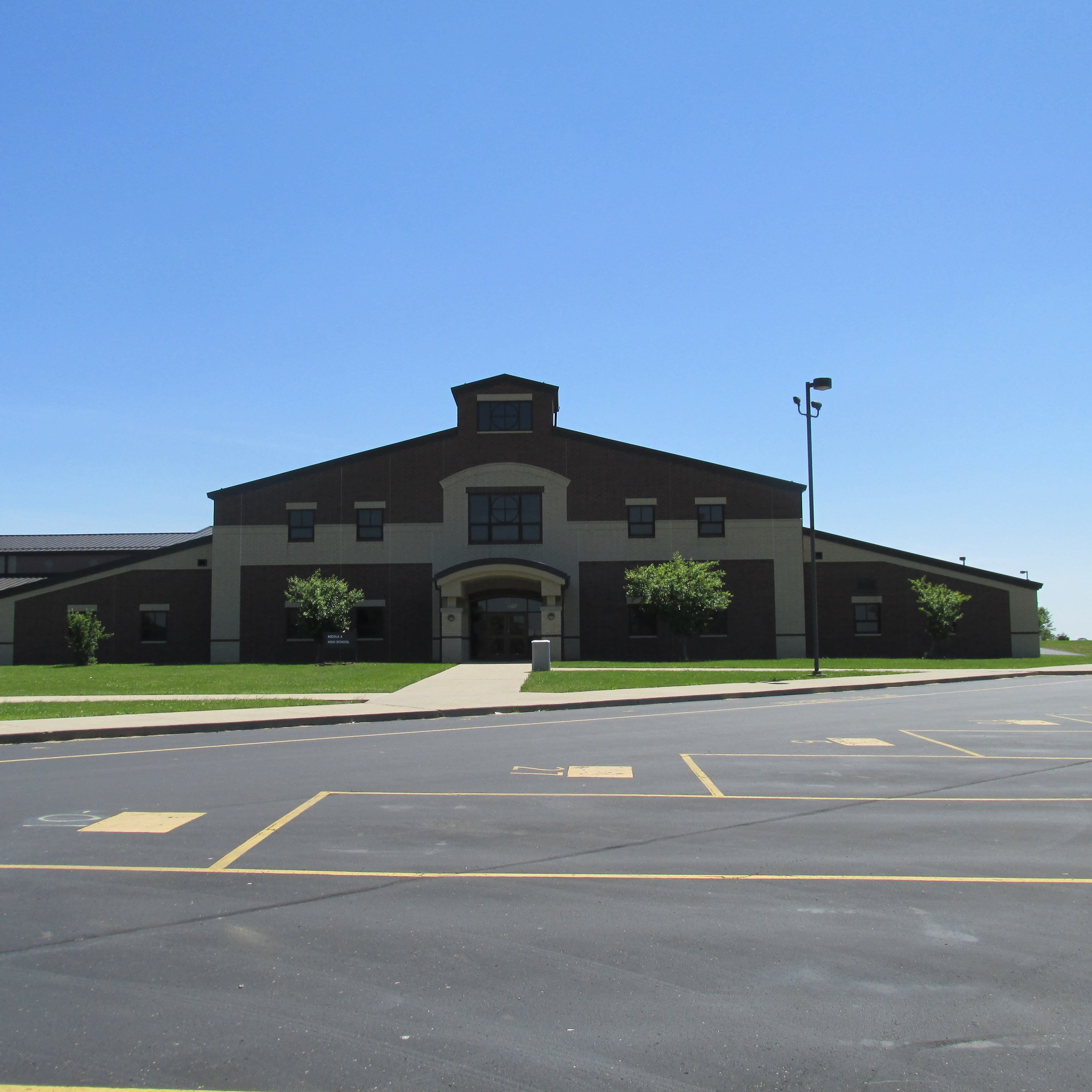 Eastern High School located outside of Beaver in Pike County, Ohio.